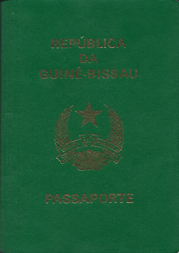 Cover of a Guinea Bissau passport issued in 2008